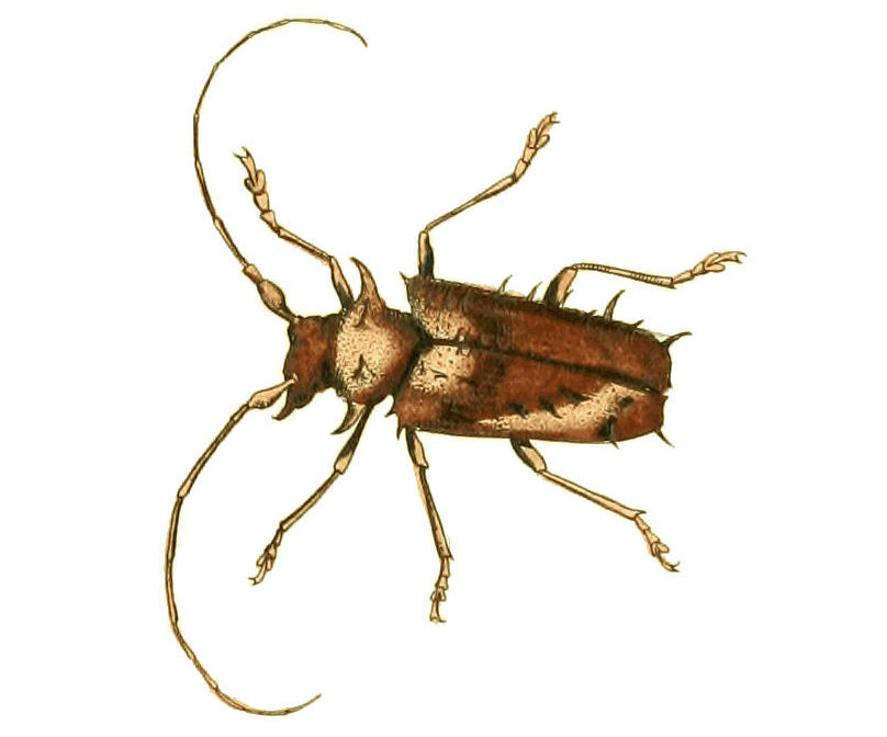 Extract from Plate XXXI. LAMIA (ACANTHOCINUS) SPINOSA (= Polyrhaphis spinosa).